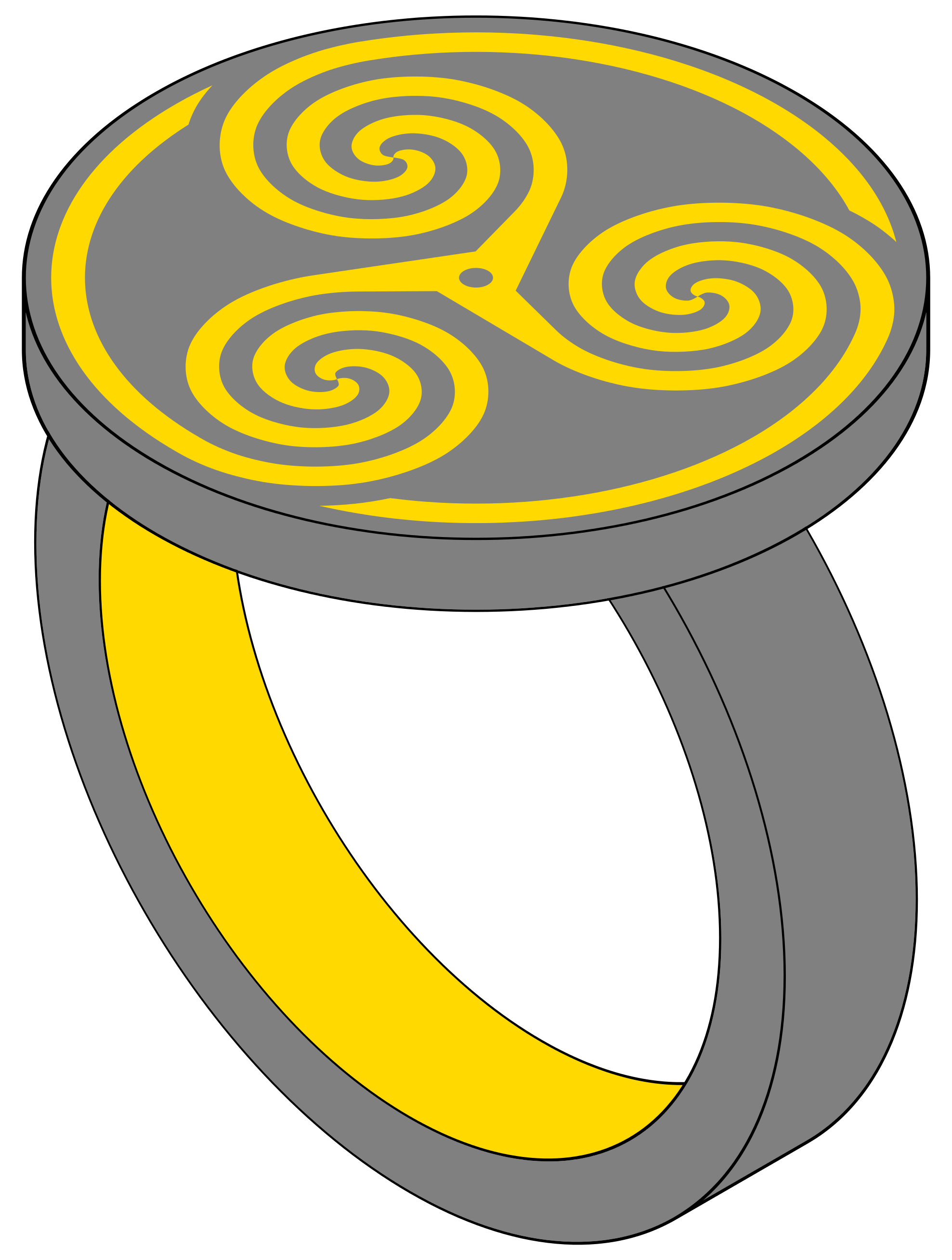 One depiction or artistic rendering of the Roissy "triskelion" ring, as described in the "Story of O" by Pauline Réage: Made of "dull grey" polished iron, and lined inside with gold (presumably to avoid staining the skin of the finger). On top, the ring had an iron signet disk that was fairly large (relative to the size of a woman's ring), with a slightly-raised convex shape, which "for design bore a three-spoked wheel inlaid in gold, with each spoke spiraling back upon itself like the solar wheel of the Celts". This is a very basic depiction (using only simple cylinder and disk shapes, shown in a simple "isometric projection" pseudo-perspective) -- in an actual ring, the perpendicular angles should of course be rounded, and the top of the signet disk (here shown flat) should be slightly convex.